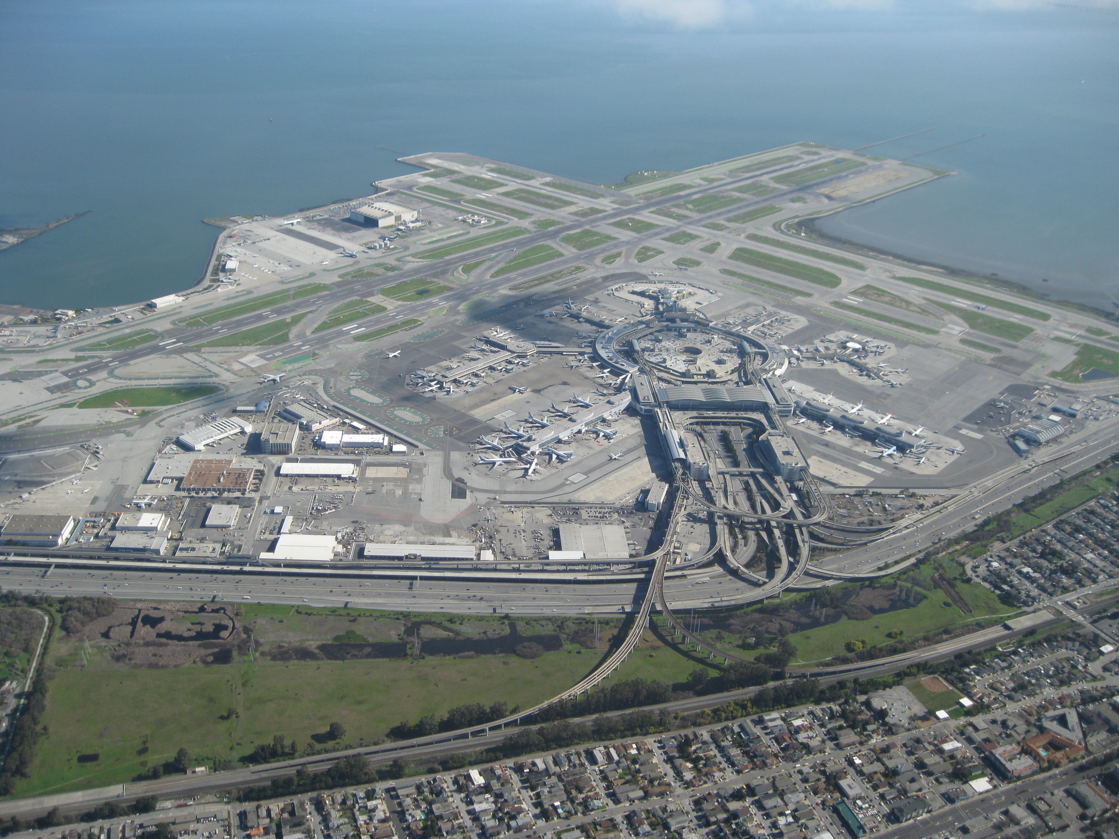 Aerial view of San Francisco International Airport.